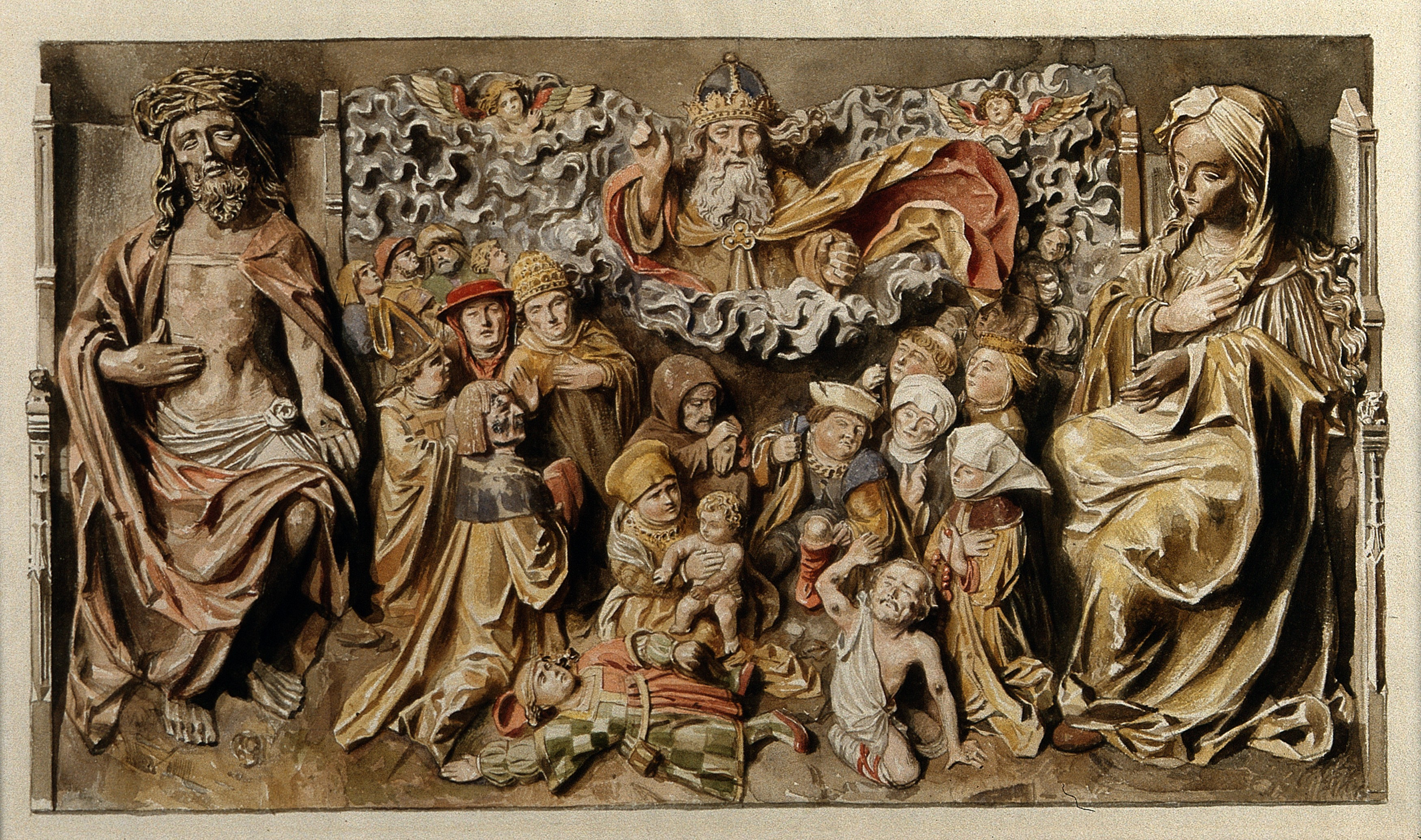 The people of Lyons receiving deliverance from the plague. Watercolour by A. Terzi after a relief carved in wood. Iconographic Collections Keywords: Aleardo Terzi; Plague; terzi, amedeo john engel